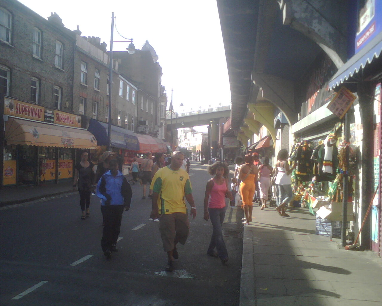 private picture, taken by myself. Picture of people in Electric Avenue, Brixton, London, UK, summer 2007. (Edit: this is Atlantic Road in fact).